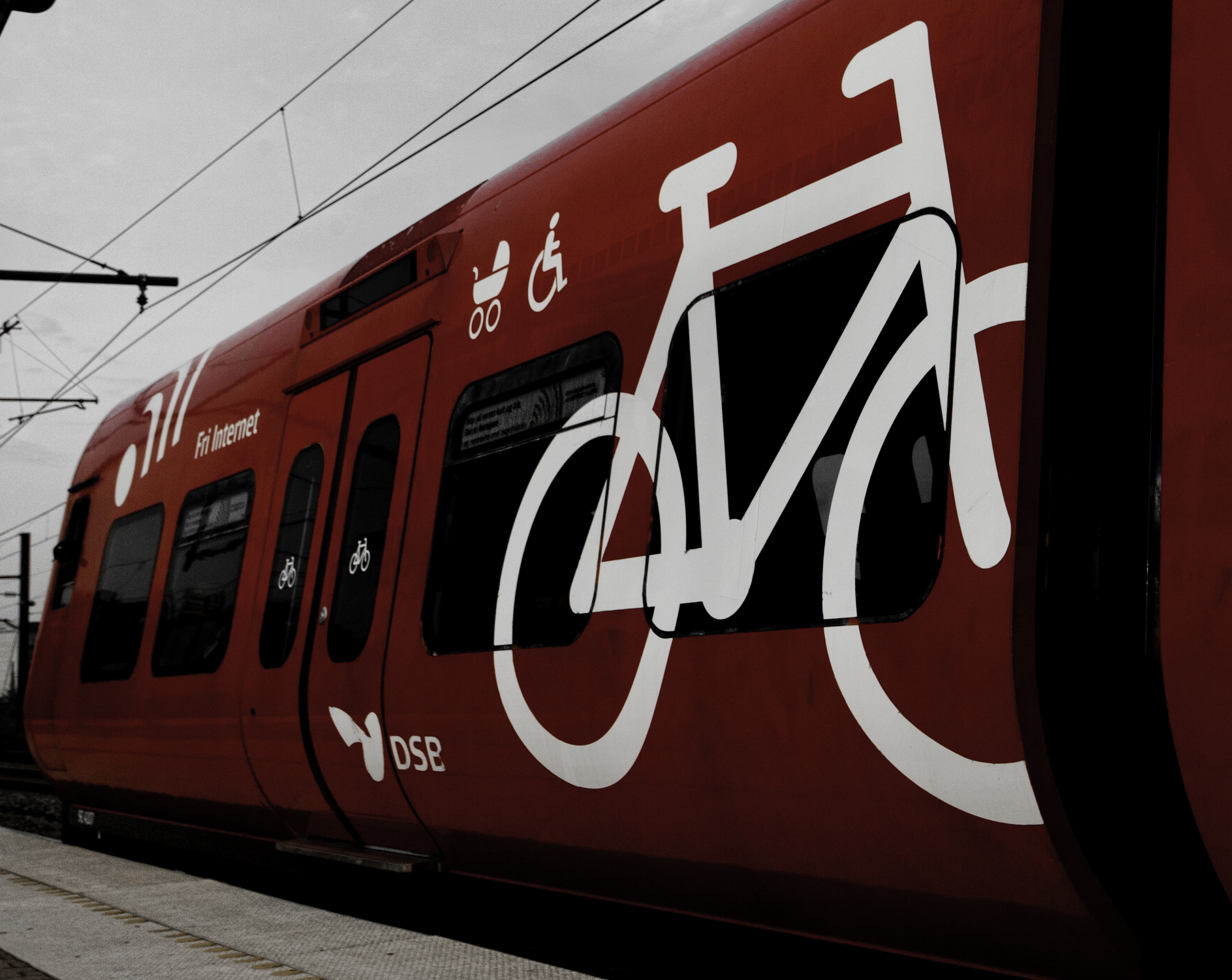 Bicycle decal on S-train, indicating that bicycles go into this carriage.